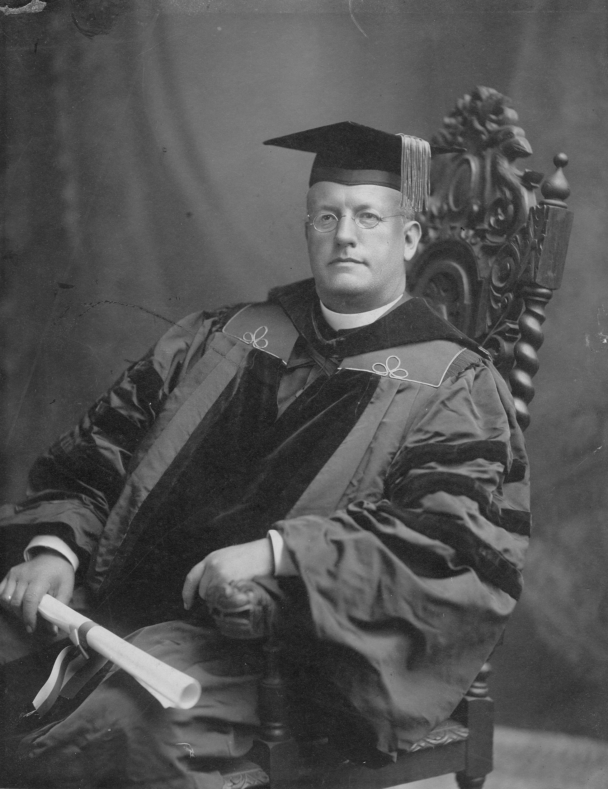 Portrait of John D. Whitney, president of Georgetown University